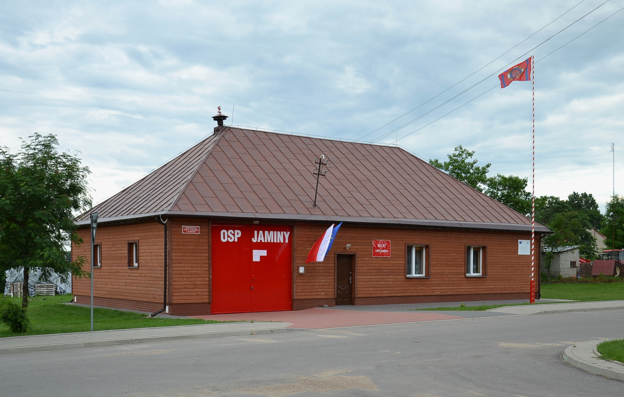 Fire station in Jaminy (Jominai), Poland